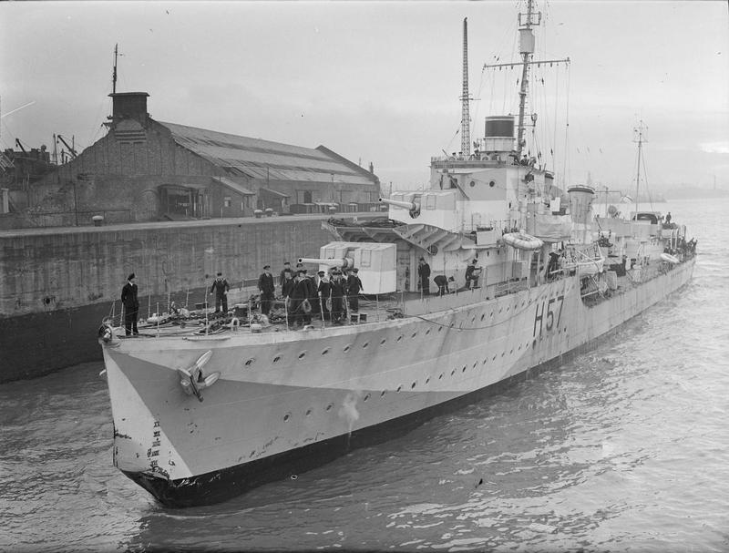 Destruction of U-boat by British Destroyers Hesperus and Vanessa. While Forming Part of a Homeward-bound Convoy Escort the Destroyers Rammed and Sank a German U-boat. the Enemy Was First Sighted and Rammed by HMS Vanessa. Though Badly Damaged It Tried To Escape in Failing Light But Was Overhauled and Finished Off by HMS Hesperus Which Rammed It For the Second Time, Broke It in Two and Sank It. Survivors Were Picked Up. 28 December 1942, Liverpool. HMS HESPERUS entering harbour, showing damage to her bows caused by ramming the U-boat.